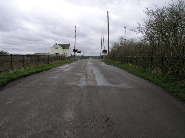 Level Crossing on Level Ground. Given the flat landscape in this area the railway has little choice than to cross the road on a level.